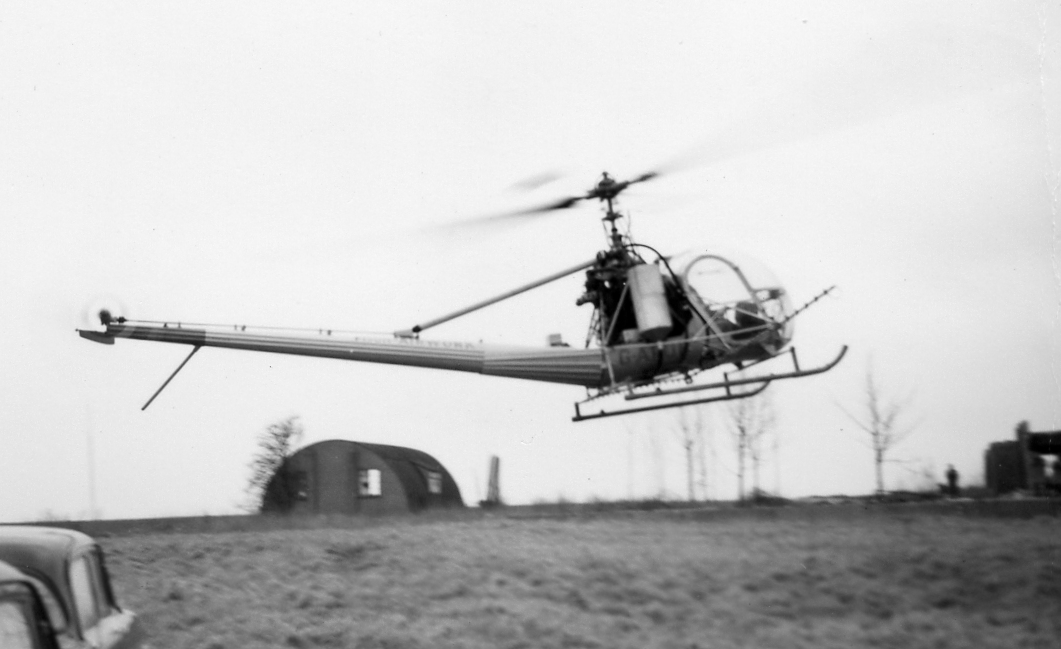 G-APUH Hiller HU-12B owned by Fison Airwork about to demonstrate crop spraying, at a disused RAF airfield somewhere in East Anglia in the Summer of 1959,, quite probably at Bourn, Cambrigeshire, Fison-Airwork's base. For history, see [1] G-APUH got its UK CofA 29 May 1959 and soon after went to South Africa.